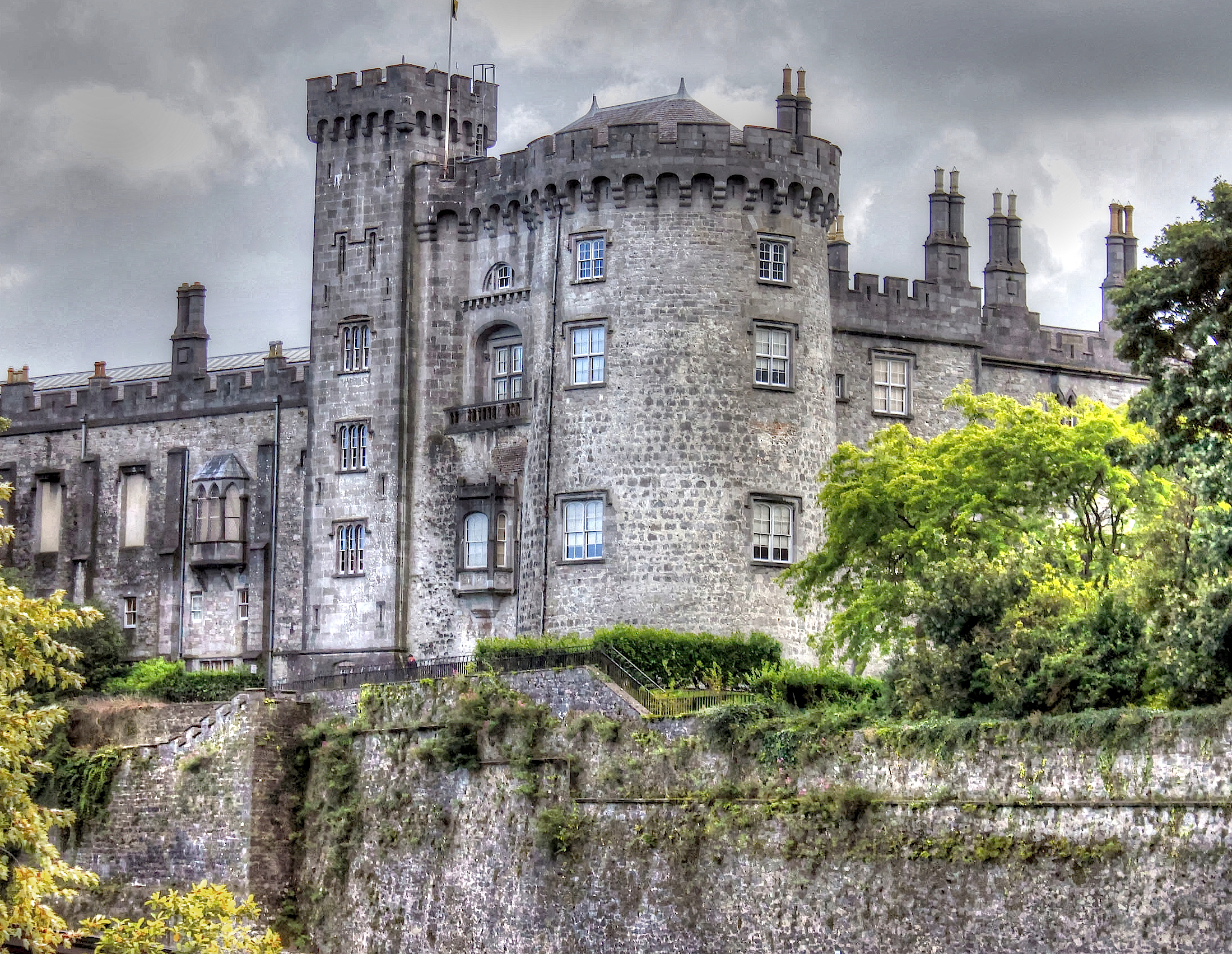 Kilkenny CastleGaeilge: Caisleán Chill Chainnigh